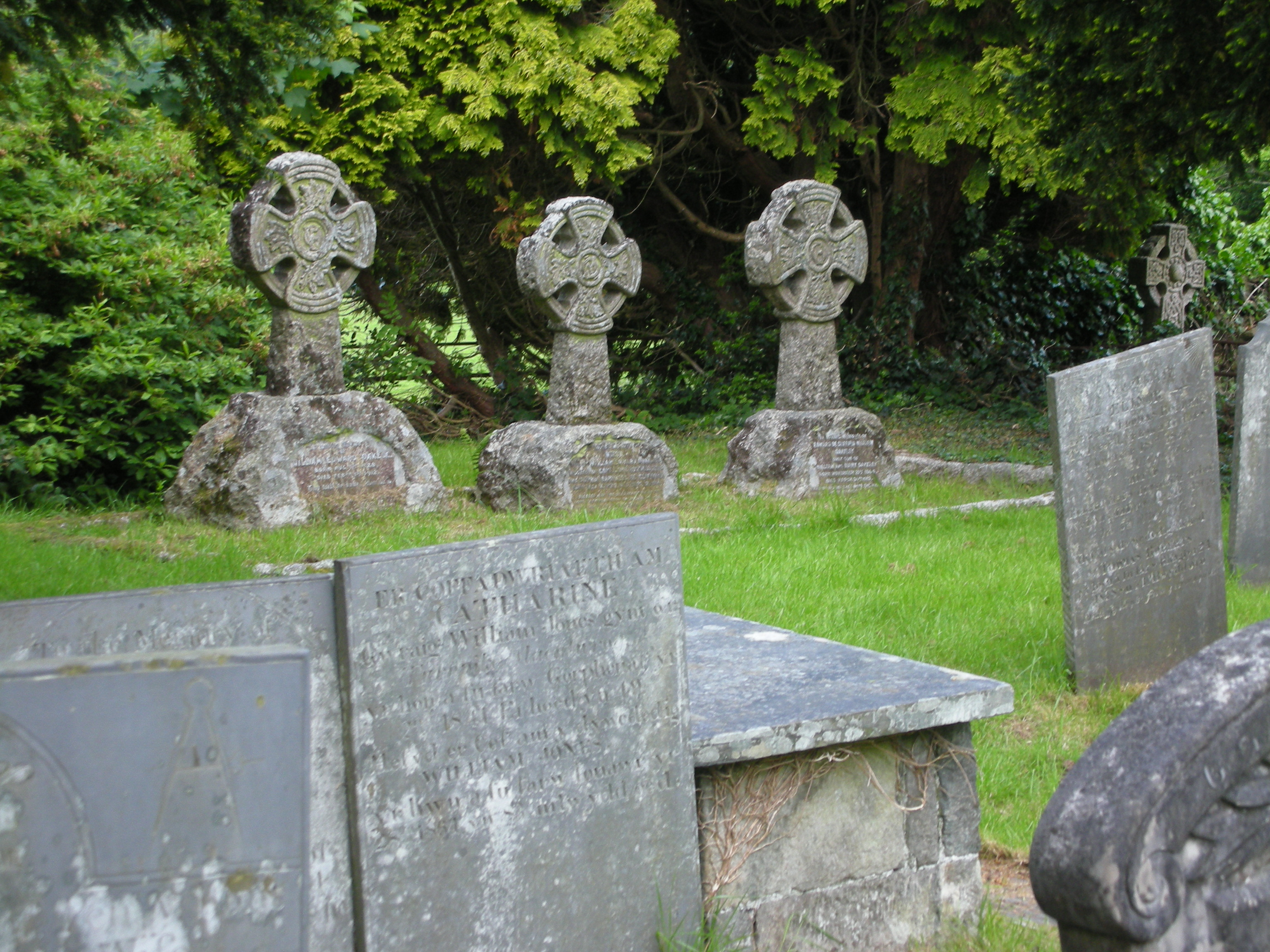 Oakeley Family Celtic Crosses St Twrogs Church